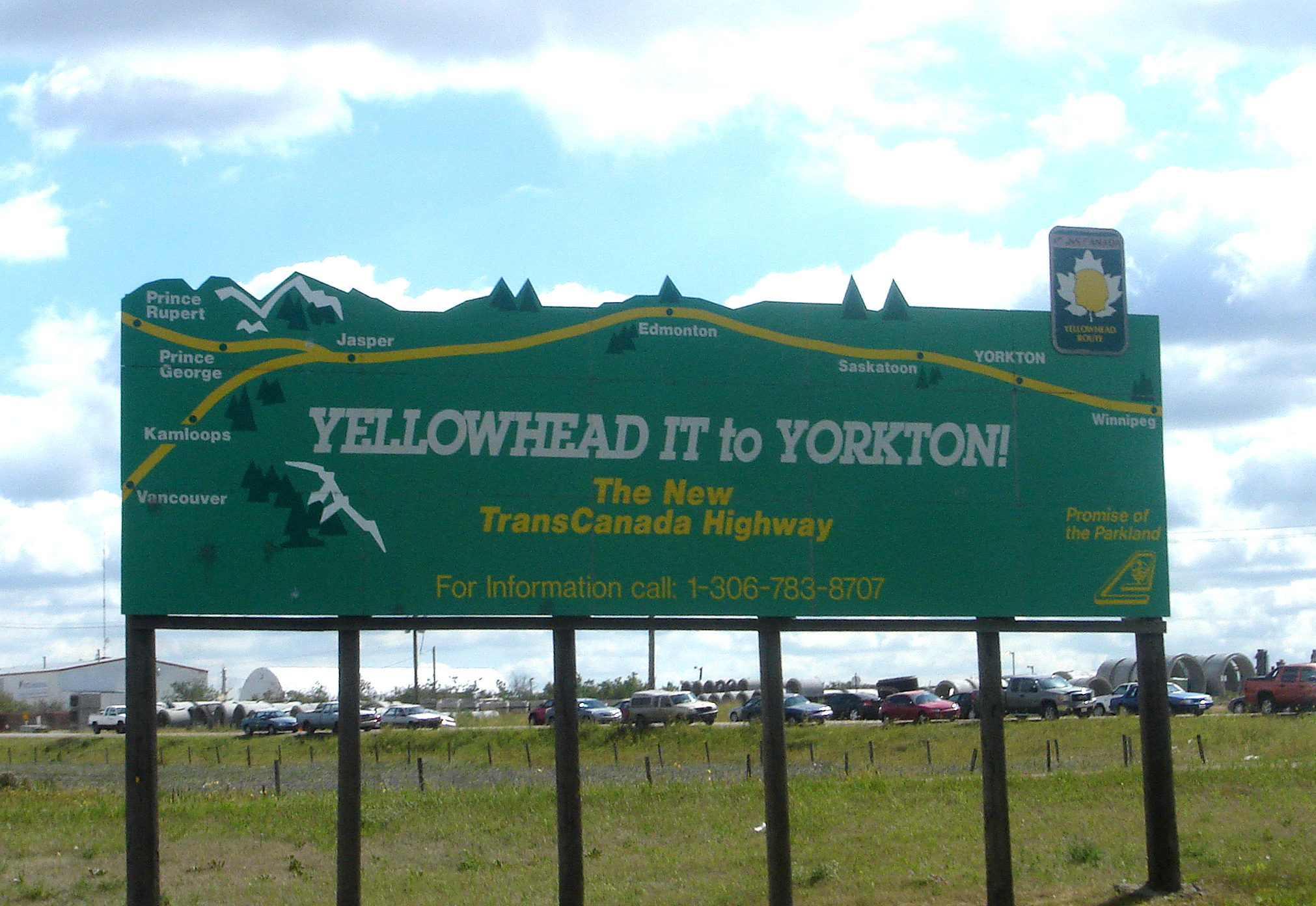 Yellowhead It to Yorkton! The new Trans Canada Highway. Photo taken at east exit out of Edmonton